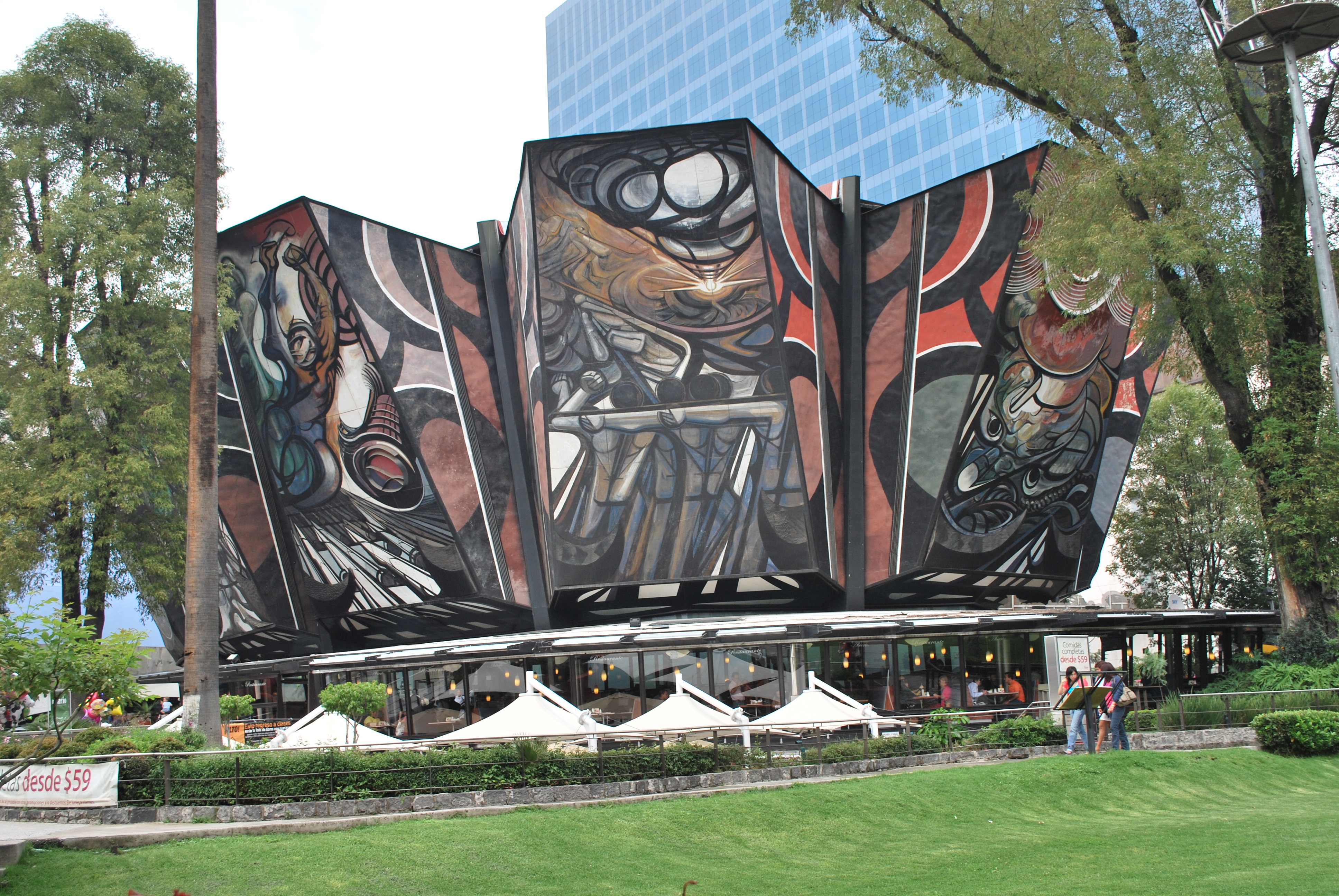 View of the Polyforum Cultural Siqueiros in Mexico City